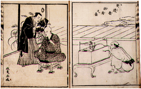 A demonstration of the Elekiter from an old Japanese book. Book is from 18th-century Japan, so is in the public domain. There are several wires linked to a test subject.